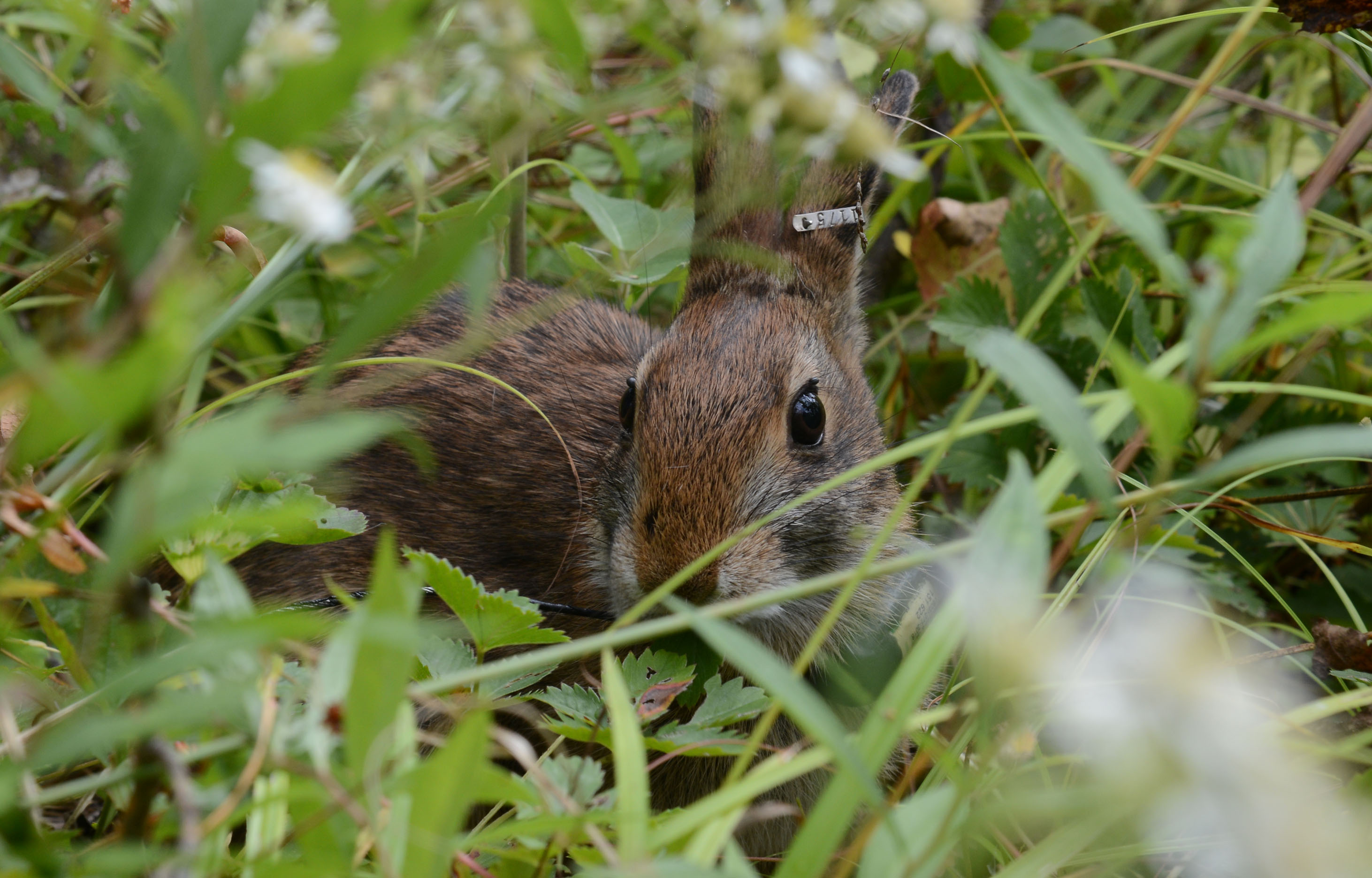 U.S. Secretary of the Interior Sally Jewell announced that a public-private partnership uniting foresters, farmers, birdwatchers, biologists, hunters and other conservationists has saved the New England cottontail from needing protection under the Endangered Species Act. The partnership has also initiated on-the-ground conservation efforts for the cottontail that will benefit the rabbit into the future. Jewell was joined by U.S. Senator Jeanne Shaheen, U.S. Fish and Wildlife Service Director Dan Ashe, U.S. Department of Agriculture Natural Resources Conservation Service Chief Jason Weller, and other conservation partners at an event to celebrate the success of the multi-state effort. Photo Credit Tami A. Heilemann